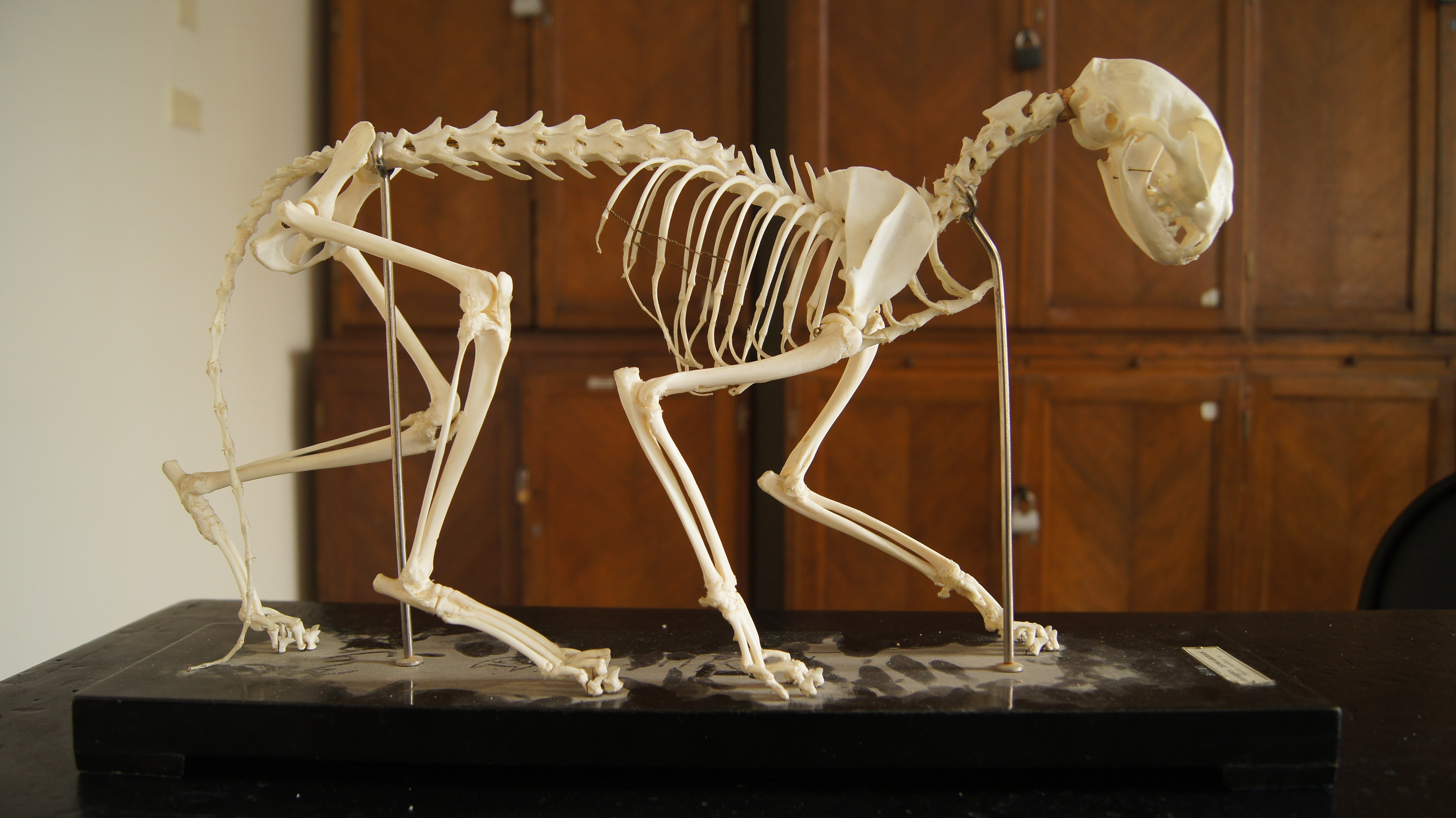 Cat (Felis catus) skeleton from the collection of Moscow State University Department of Biology